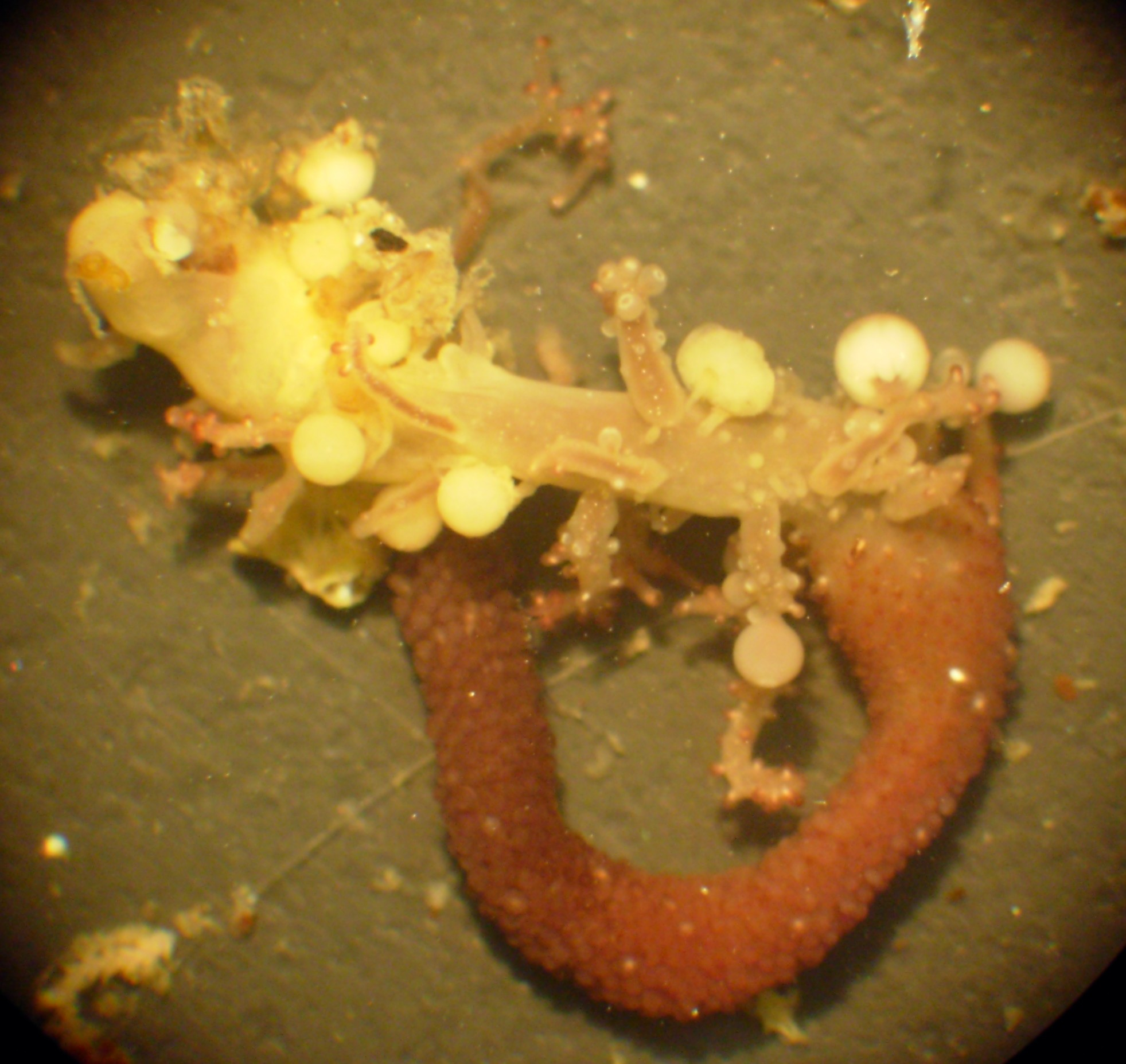 Candelabrum cocksii, general view